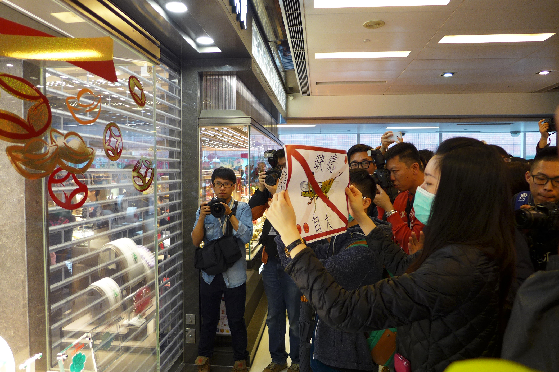 Protesters show pic to Luk Fook Jewellery